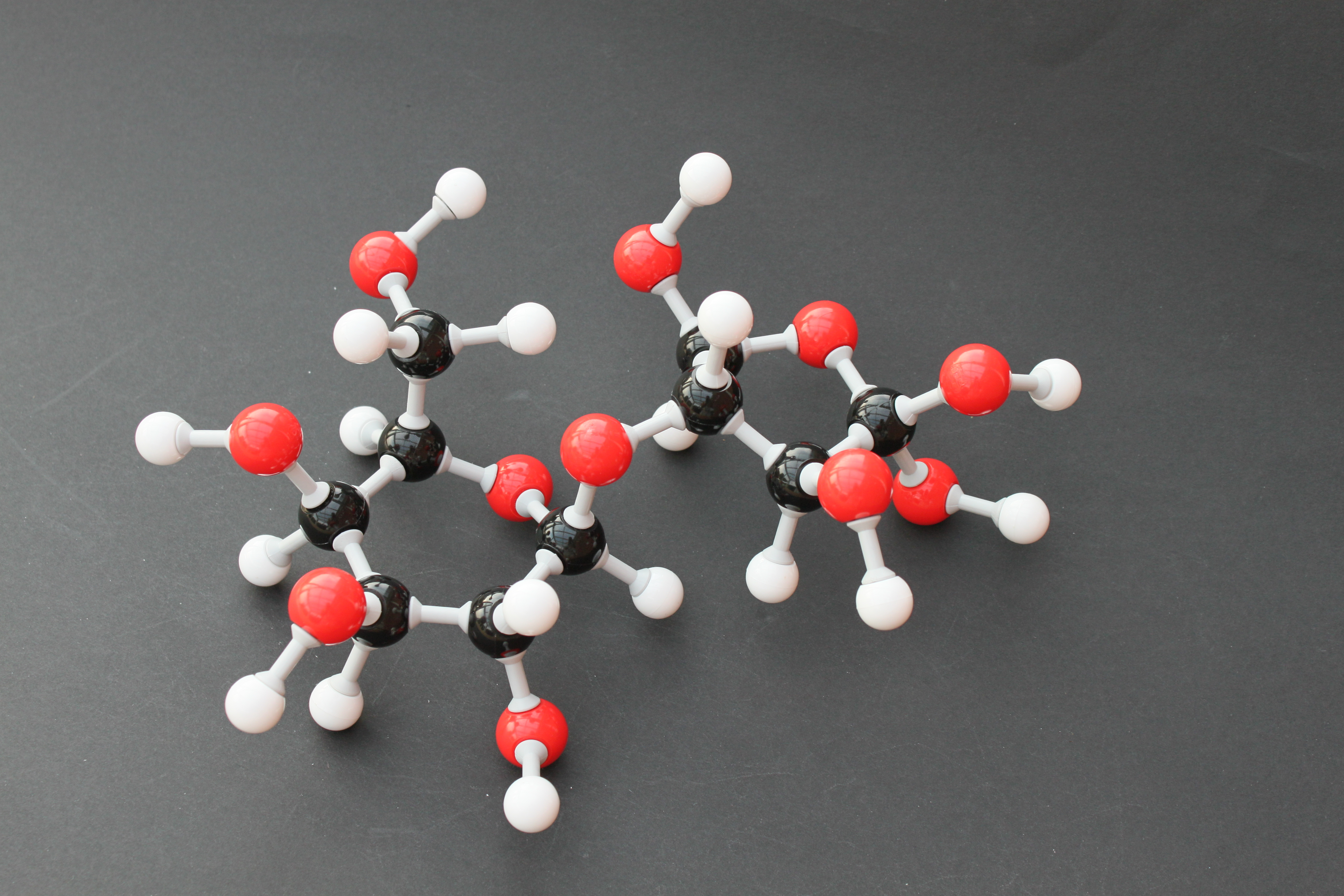 Chemical structures constucted with Prentice Hall Molecular Model Set for General Organic Chemistry